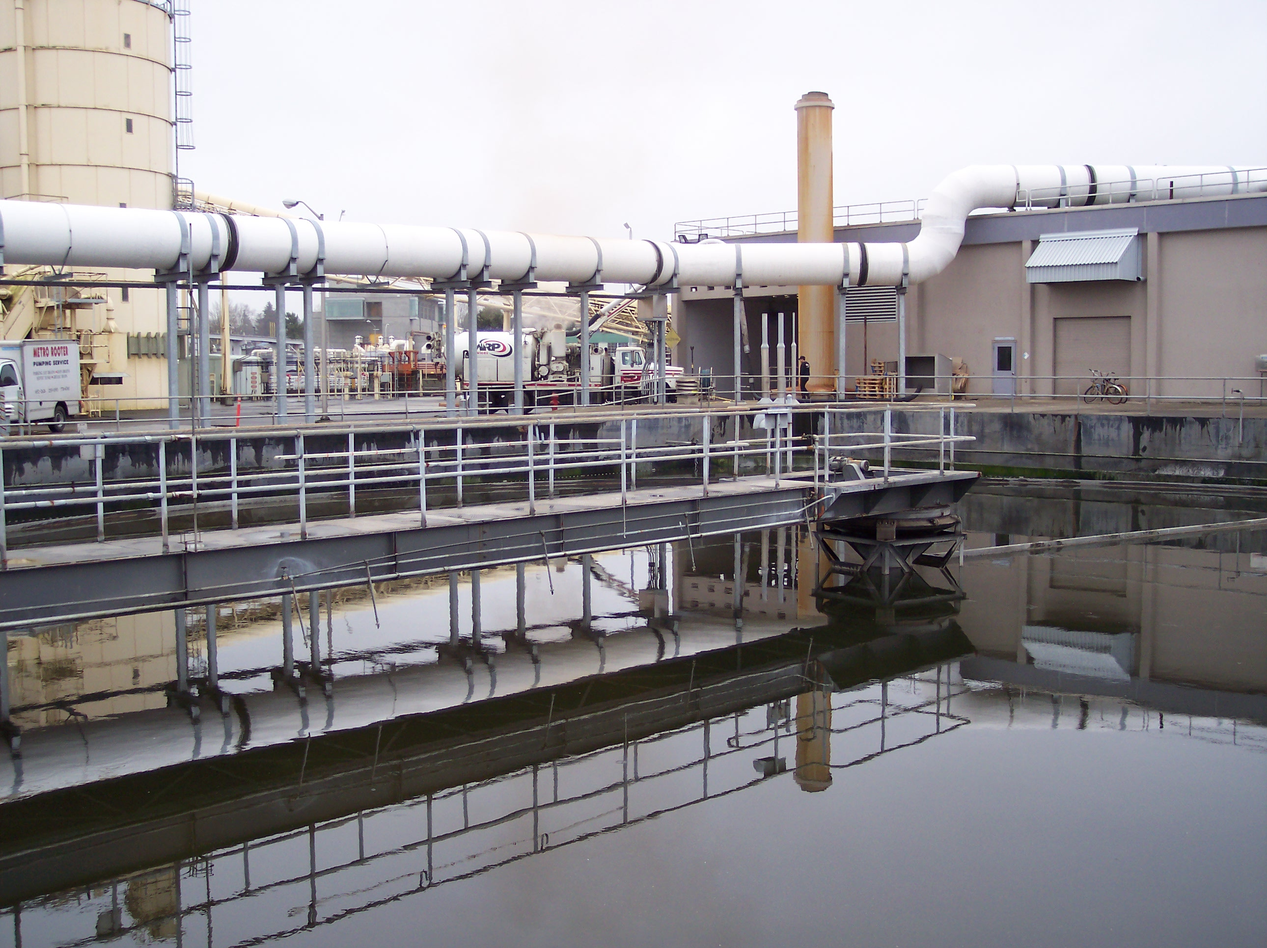 Section of a wastewater treatment plant. Columbia Boulevard Wastewater Treatment Plant, 5001 North Columbia Boulevard, Portland, Oregon, United States.